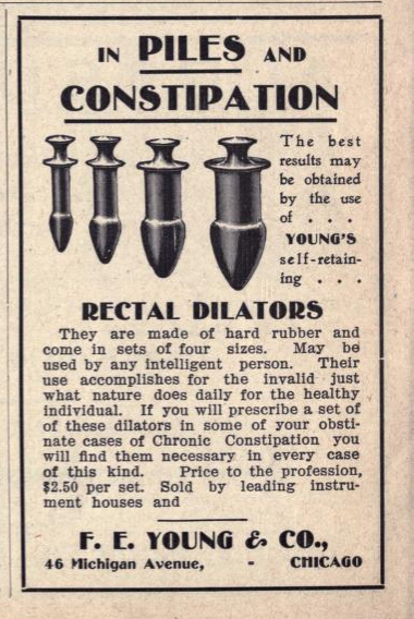 Advertisement for Dr. Young's Ideal Rectal Dilators, Detroit Medical Journal